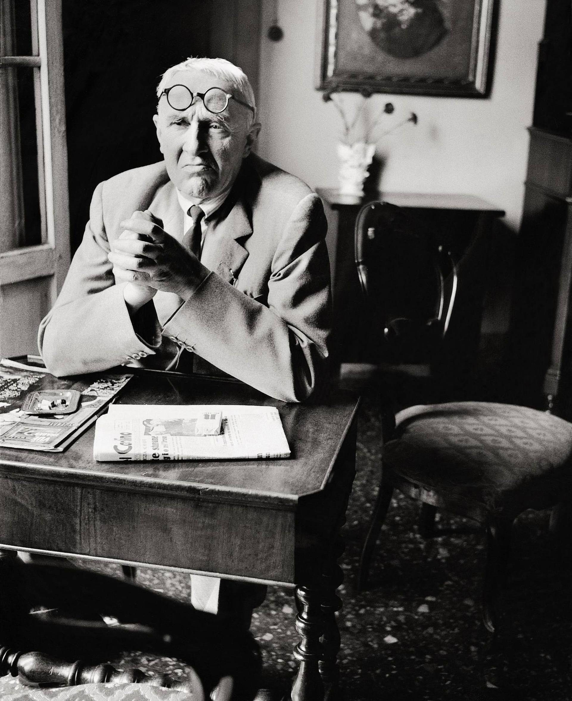 Photograph of the Italian painter Giorgio Morandi (1890–1964).